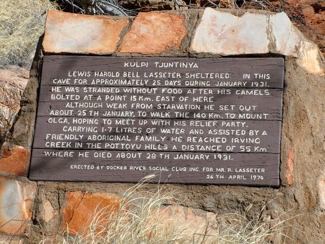 Plaque at Kulpi Tjuntinya (Lasseter's Cave) in Northern Territory, Australia